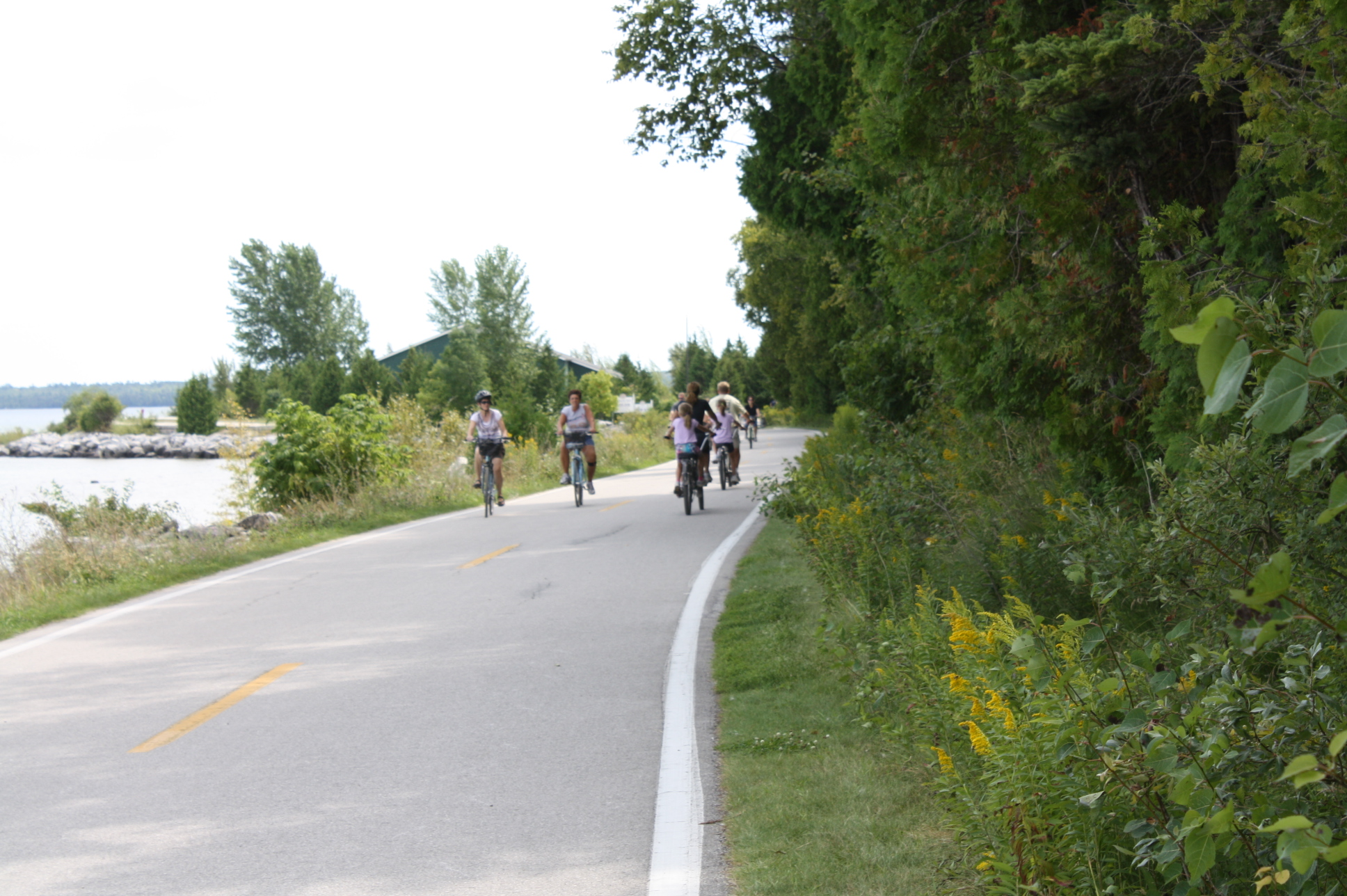 Bikers in the rural portion of M-185 (Michigan highway) near Mile Marker 1.